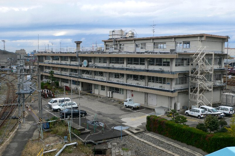 JR West Kanazawa Car Maintenance Center